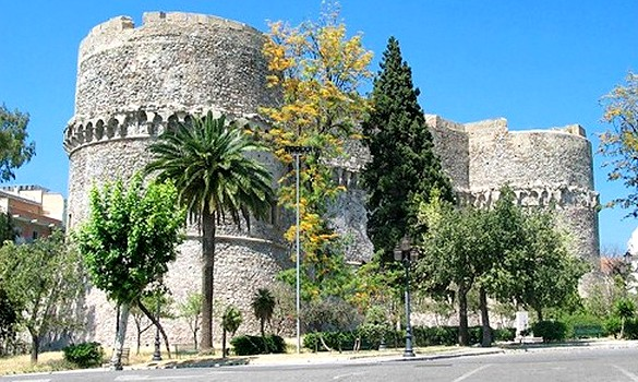 Reggio Calabria